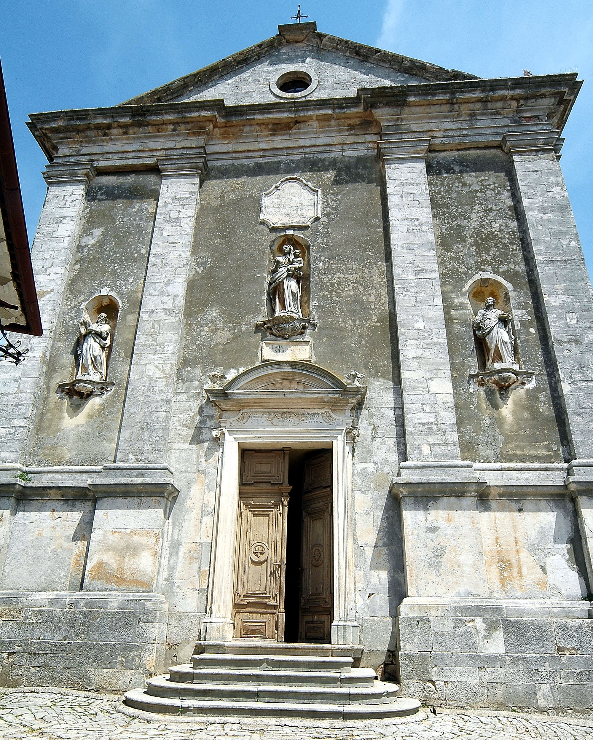 Parish church of Tinjan, Istria, Croatia